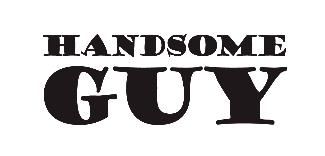 Sample of the font Goudy Stout